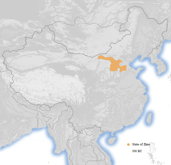 Map of Zhao(State) circa 300 BCE.